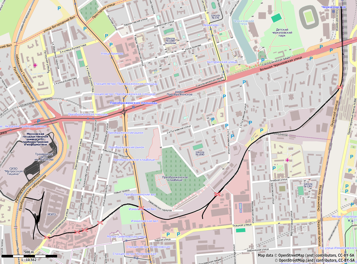 Railway branch Cherkizovo - Electrozavod by OpenStreetMap data. Moscow.